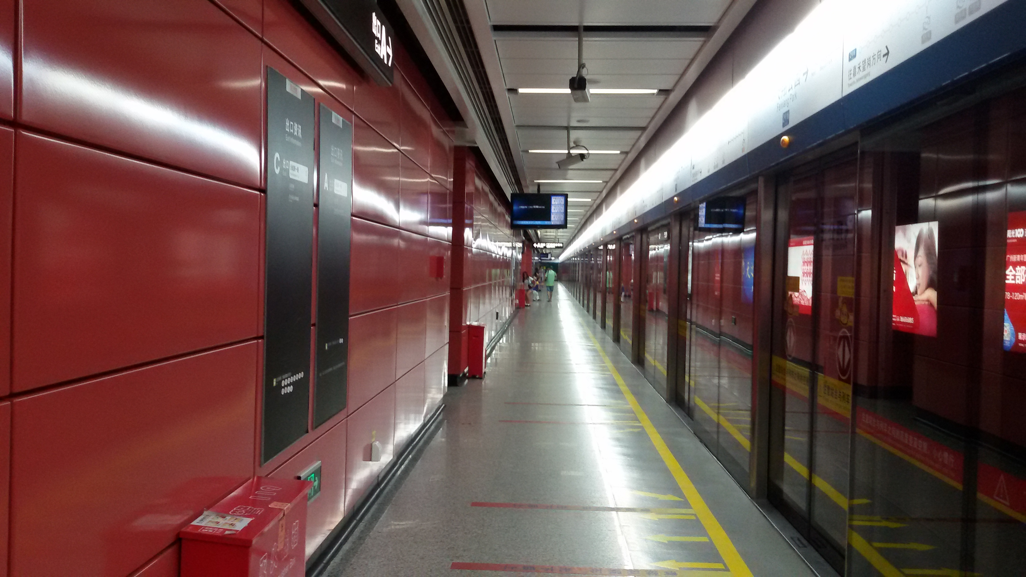 Station Platform for Feixiang Park Station in Guangzhou Metro 粵語: 飛翔公園站嘅站台